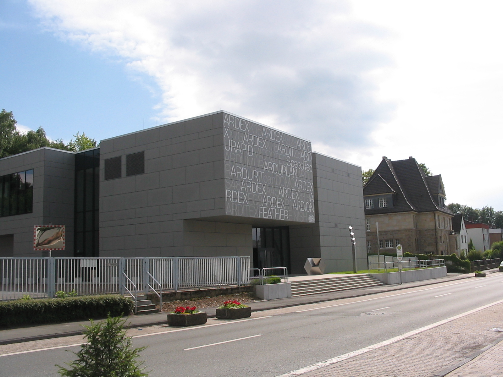 Ardex information and seminar center in Witten